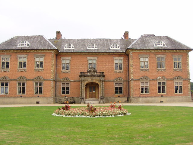 Tredegar House West of Newport